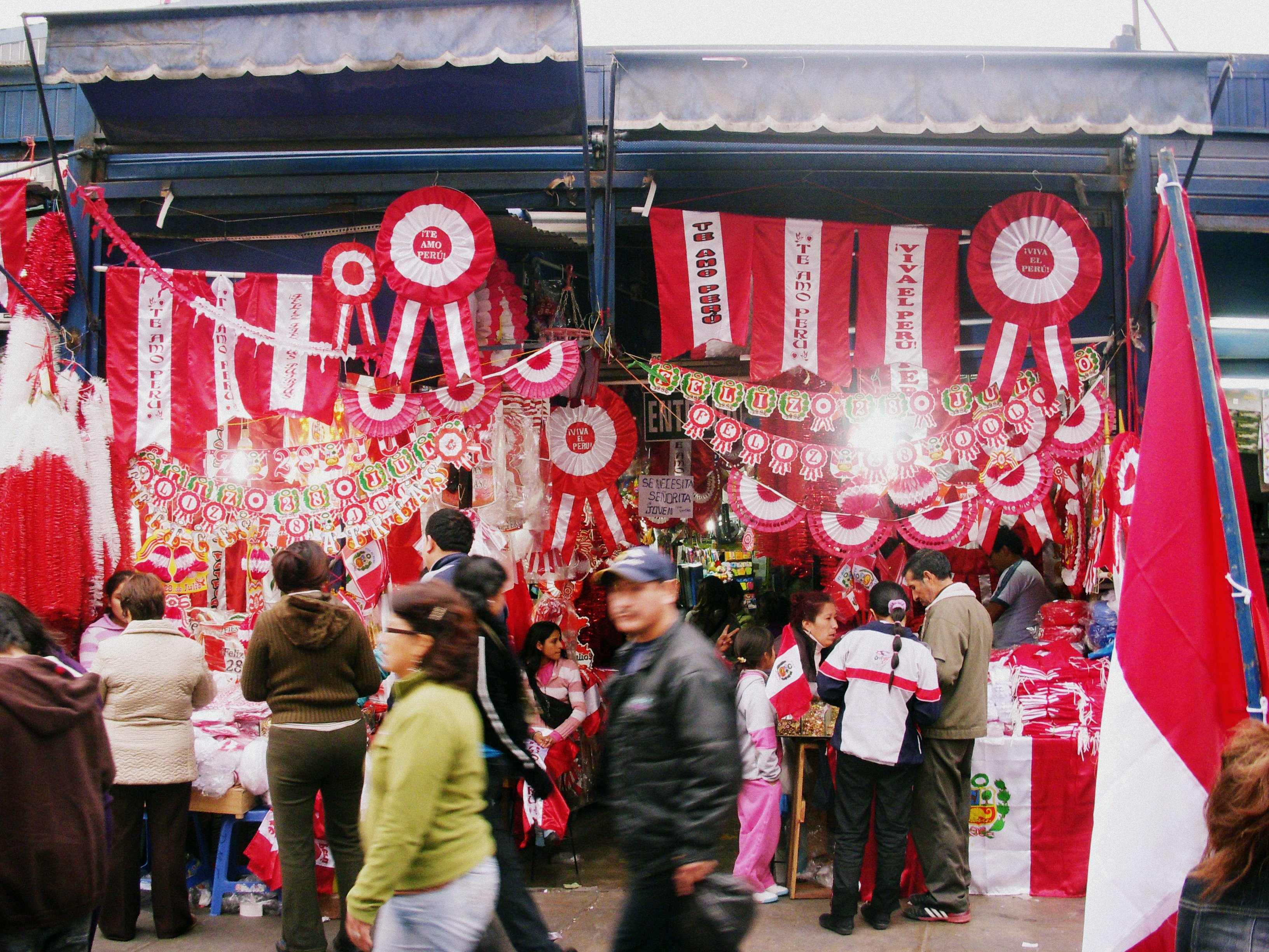 We were days away from Fiestas Patrias, Peruvian Independence Day.